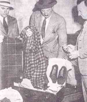 Image of the suitcase belonging to The Somerton Man, found at Adelaide railway station. From left to right are detectives Dave Bartlett, Lionel Leane, and Len Brown.